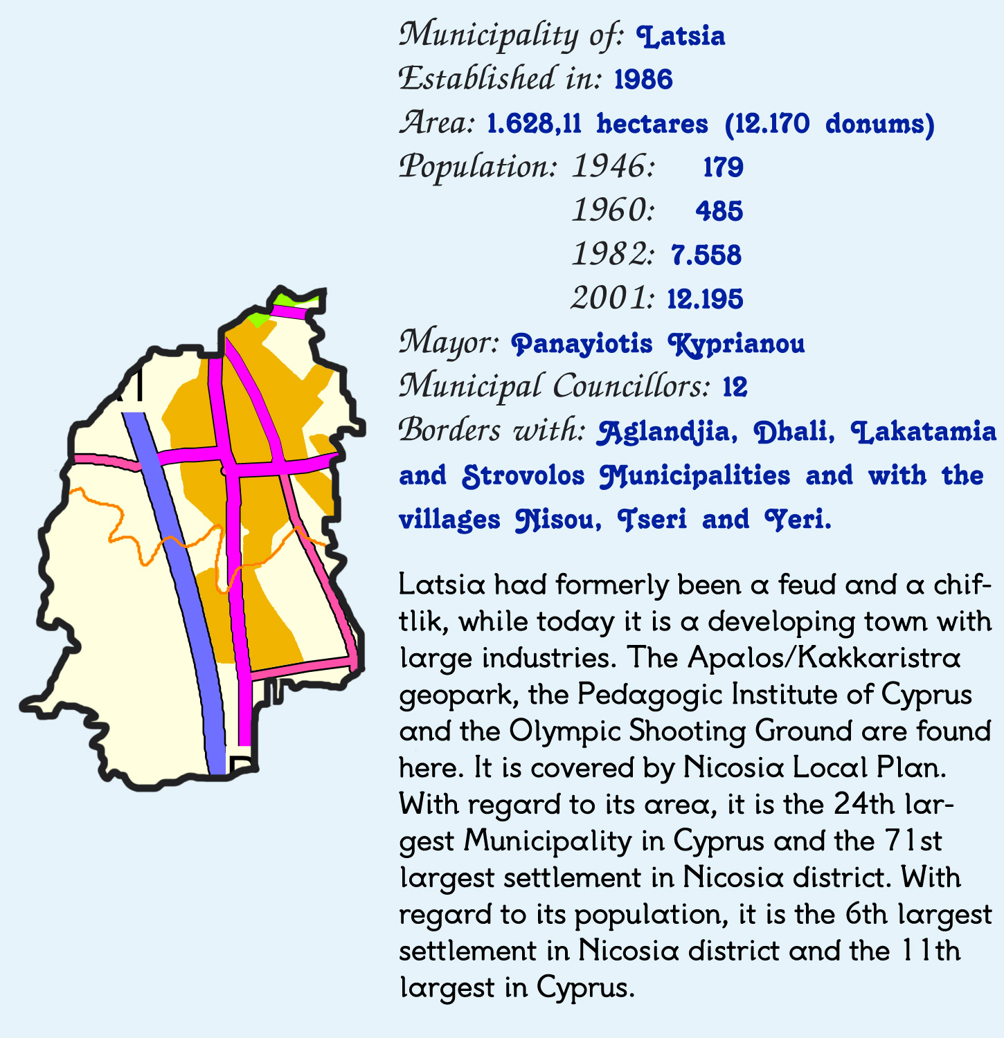 Concise presentation of Latsia